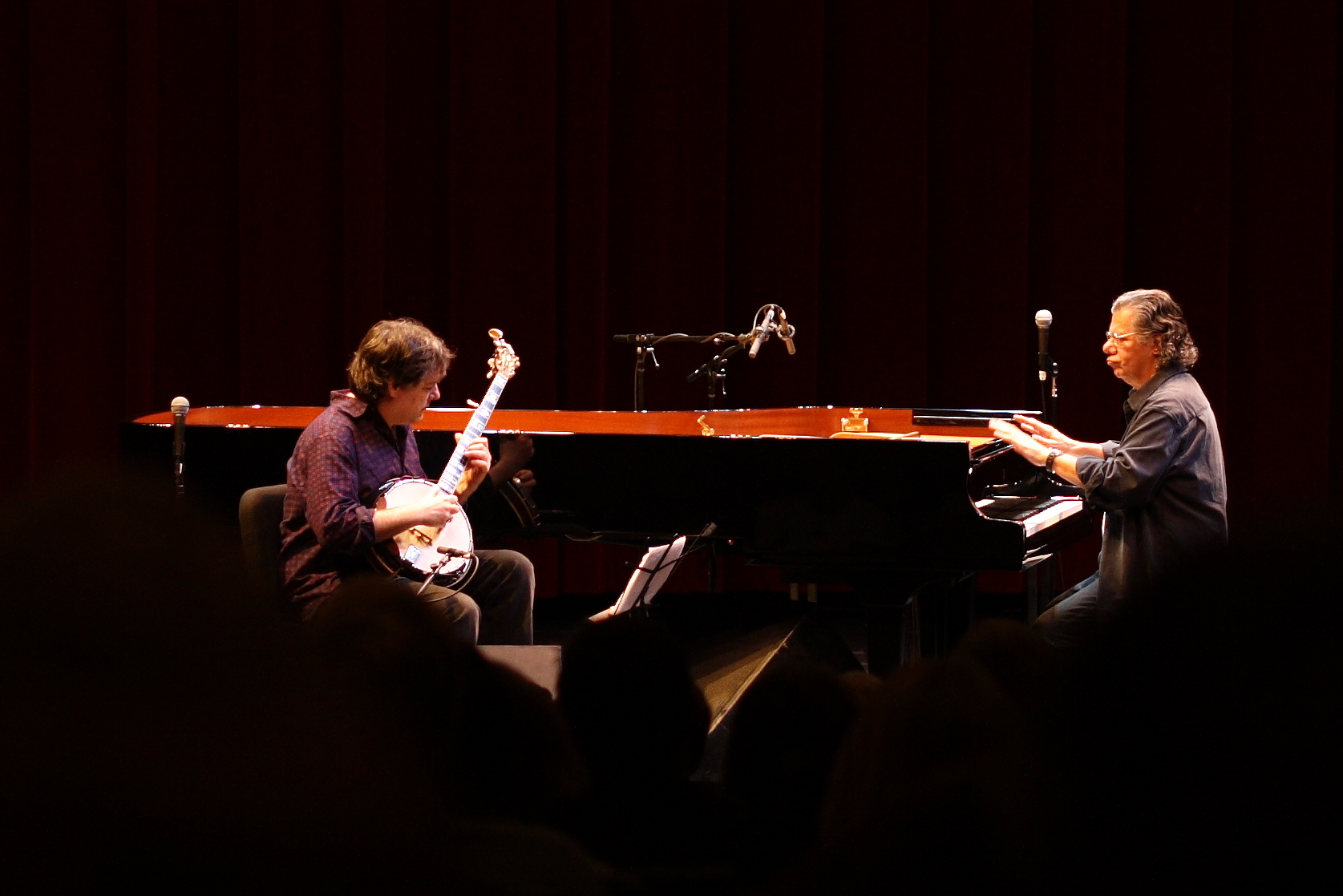 Banjoist Béla Fleck plays bluegrass while pianist Chick Corea accompanies him by tapping on the piano, during the encore of a joint performance at the Hopkins Center at Dartmouth College in Hanover, New Hampshire